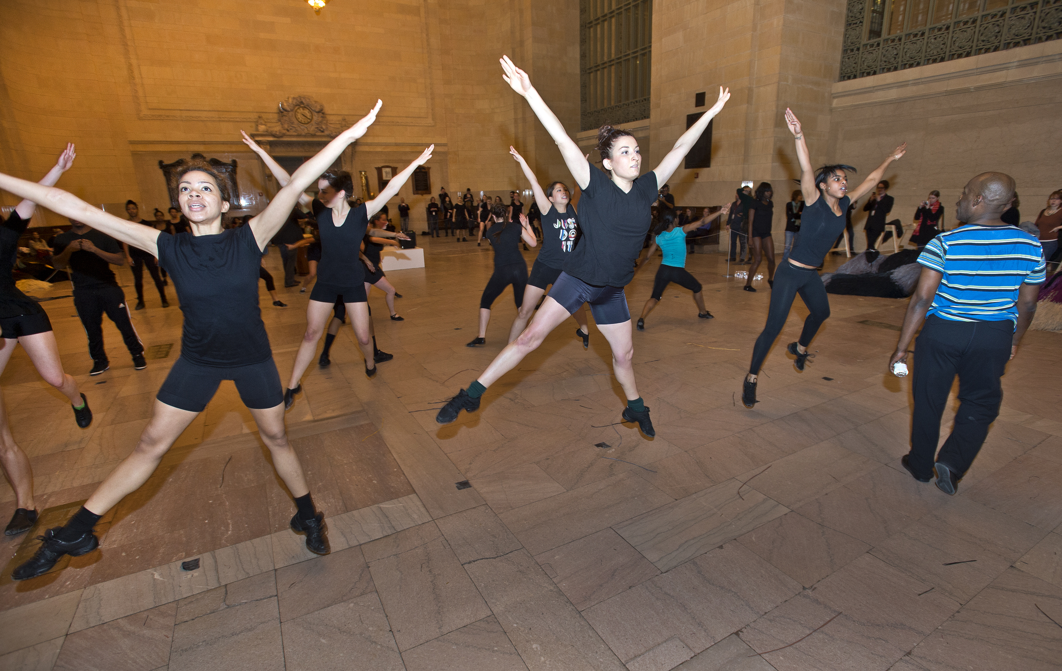 On March 24, 2013, dancers who are part of the Heard-NY performances taking place from March 25-31 practiced in Grand Central Terminal. Heard-NY features a herd of thirty large, peaceful, magnificent, and magical horses. The much-anticipated seven-day performance produced by MTA Arts for Transit and Creative Time actually consists of sixty dancers from The Ailey School inhabiting “Soundsuits” created by renowned artist Nick Cave. Photo: Metropolitan Transportation Authority / Patrick Cashin.